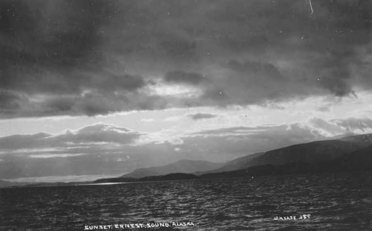 Case 389 PH Coll 300.75 Subjects (LCTGM): Sunrises & sunsets Subjects (LCSH): Sun--Rising and setting